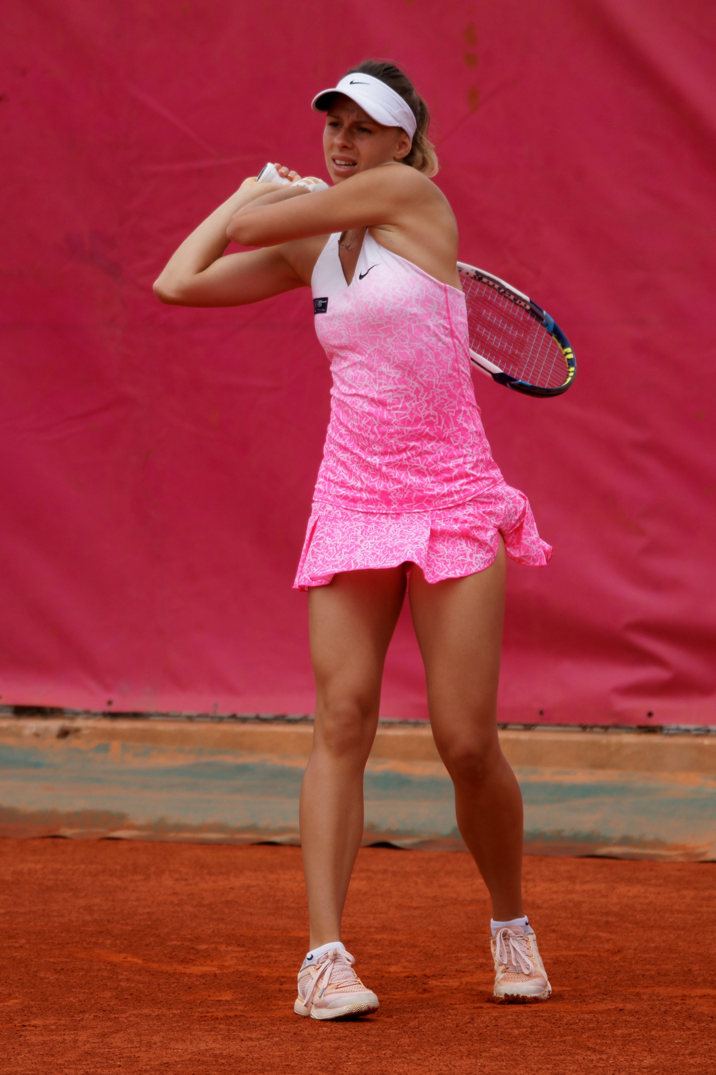 Magda Linette at the 2015 Open GDF Suez de Cagnes-sur-Mer Alpes-Maritimes